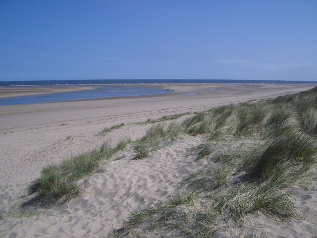 Burnham Harbour from the Dunes looking North-east Despite its name, Burnham Harbour is a natural feature and not a conventional man-made harbour. The harbour is an attractive unspoilt stretch of the River Burn that runs through the golden sands parallel to the coast.